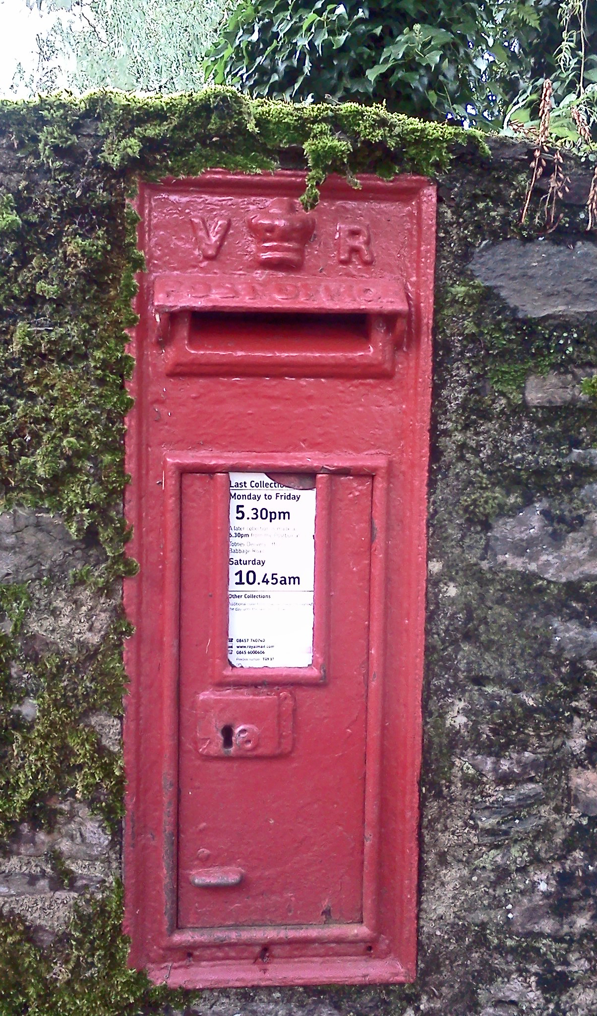 A Queen Victoria Wall box (unidentified type) located near Ashprington, Cornwall, UK.